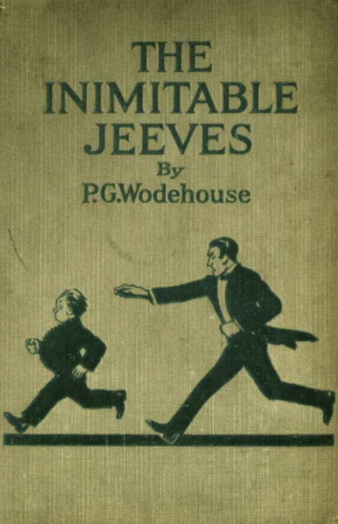 Cover of P.G. Wodehouse's The Inimitable Jeeves, 1923.